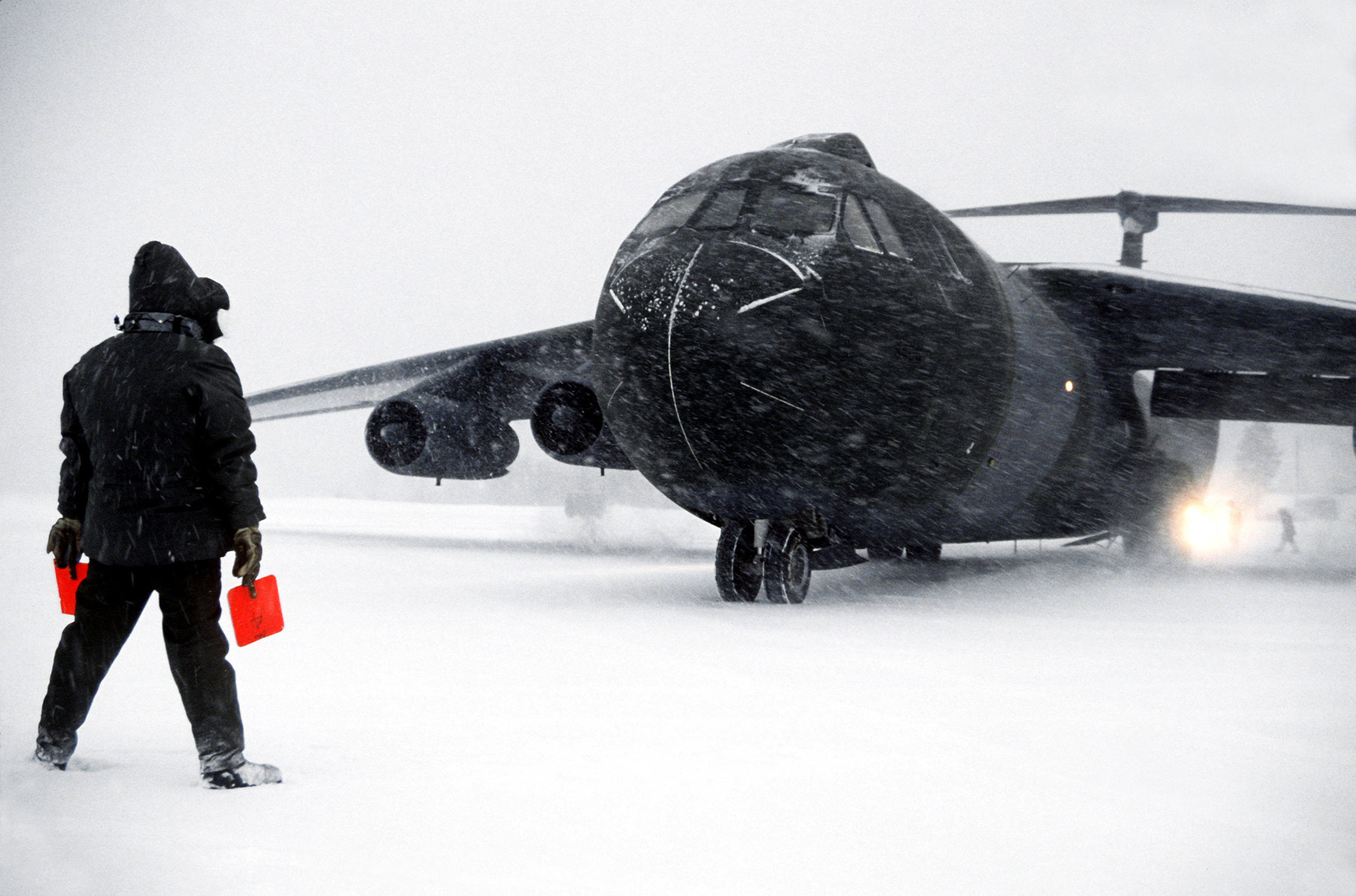 A flight line marshaler directs a camouflage-painted C-141B Starlifter aircraft to a stop during a snowy night. The aircraft is involved in exercise Alloy Express. Location: Bardufoss, Norway.